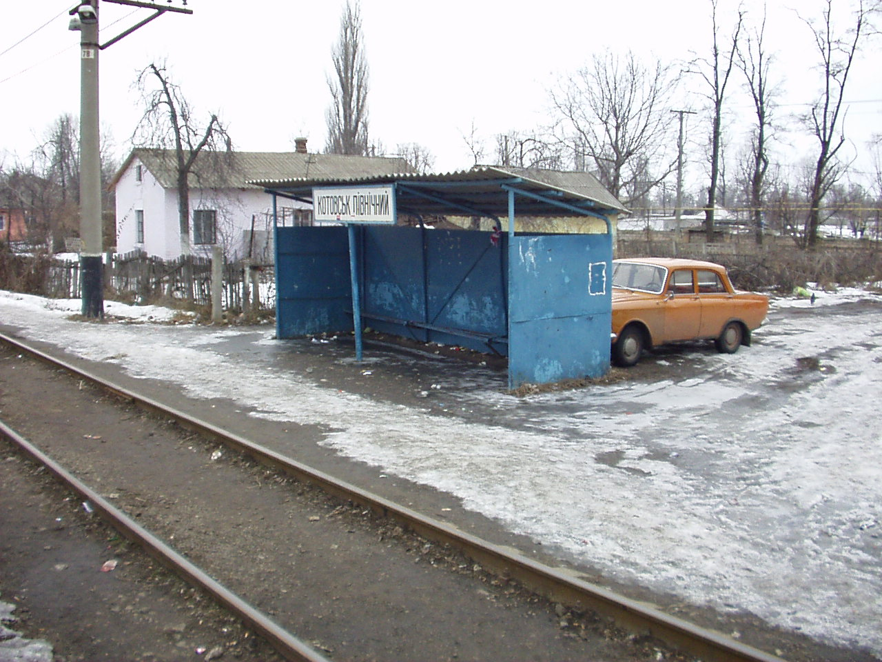 Kotovsk-Northern railway stop at Kotovsk Railway Station